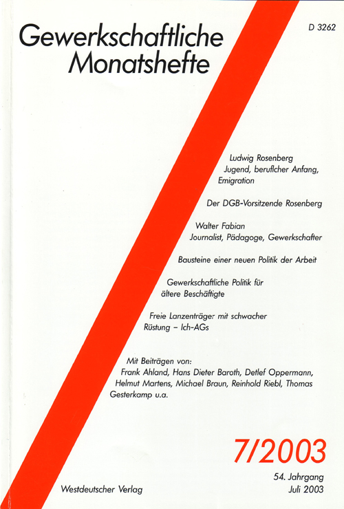 Cover "Gewerkschaftliche Monatshefte", a magazine of "Deutscher Gewerkschaftsbund" (Confederation of German Trade Unions), issue 2003-7